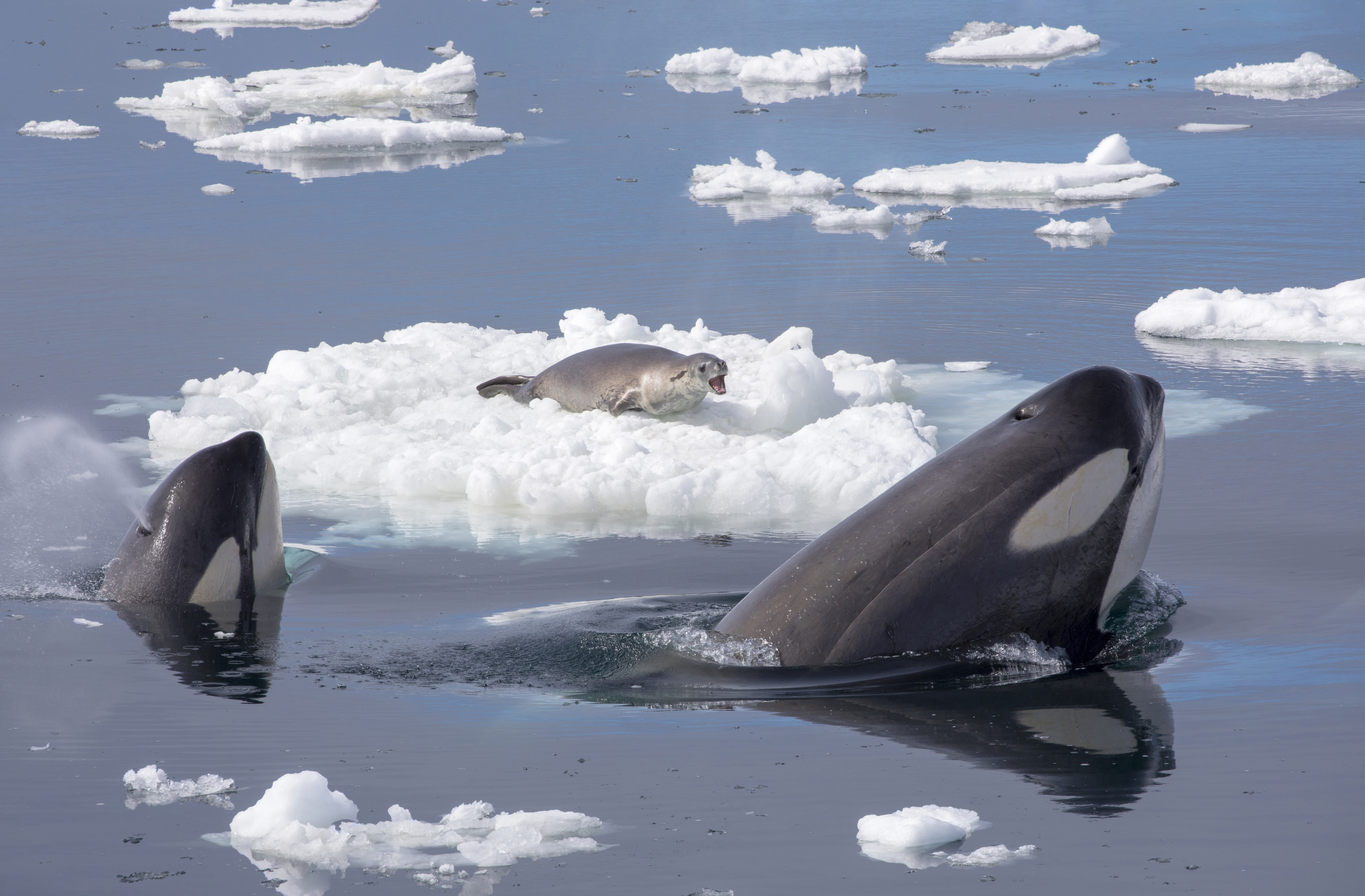 This photograph was taken off the Graham Coast, Antarctica from aboard the National Geographic Explorer on January 3, 2018. It captures one moment during a two-hour encounter between four cooperatively hunting orcas and a crabeater seal. The seal, known informally as "Kevin", survived the ordeal despite over three dozen attempts by the orcas to wash him off of various ice floes. The orcas repeatedly aligned four abreast and charged directly at the ice floes in a synchronized fashion. By swimming in close formation just below the surface of the water, the orcas generated enormous bow waves that would wash over the ice floes, dislodging Kevin time and again. Kevin finally escaped by swimming at a 90 degree angle to the course of the whales as they dove under his ice floe a final time.